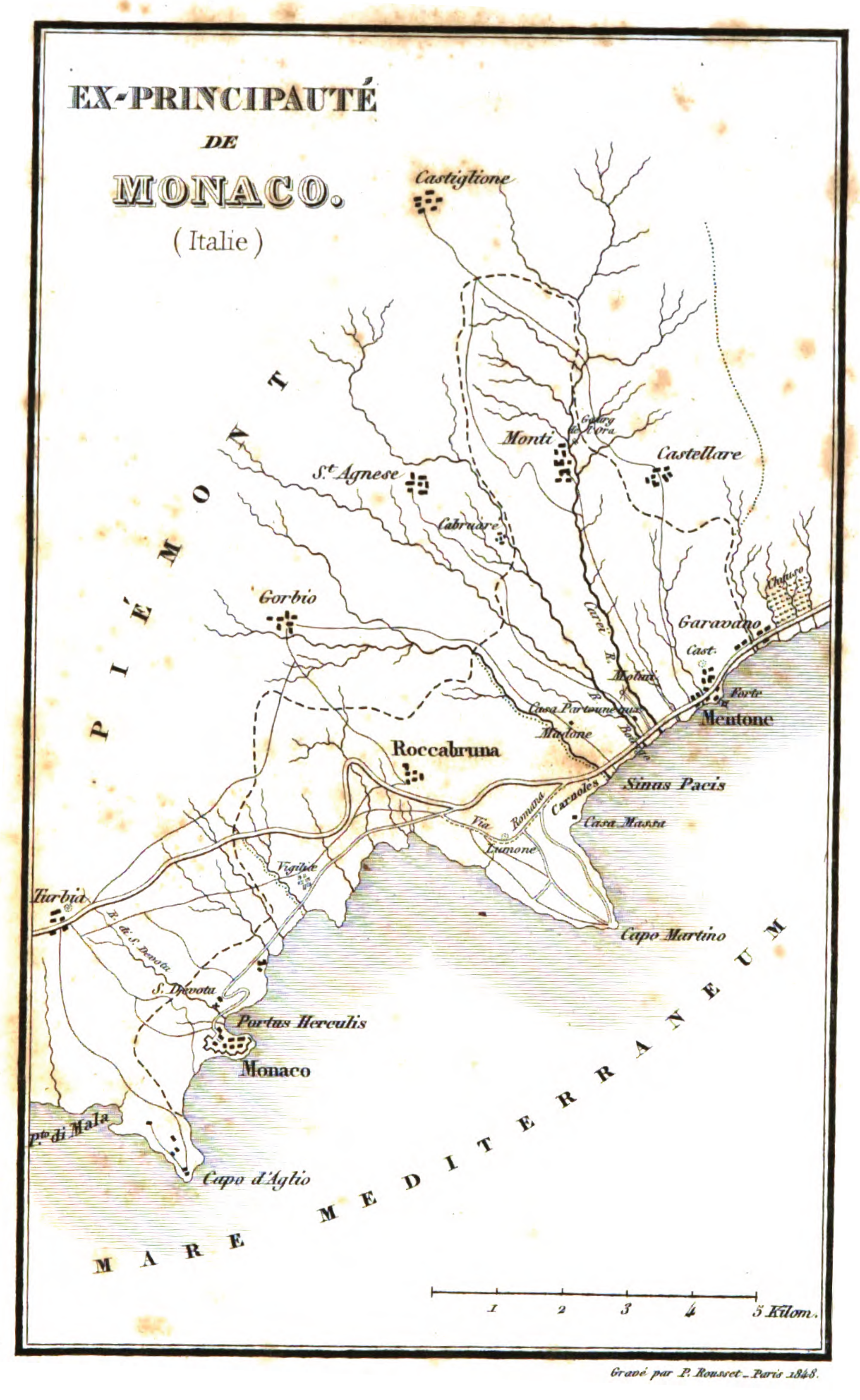 Map of the Principality of Monaco before the loss of Menton & Roquebrune (1848).